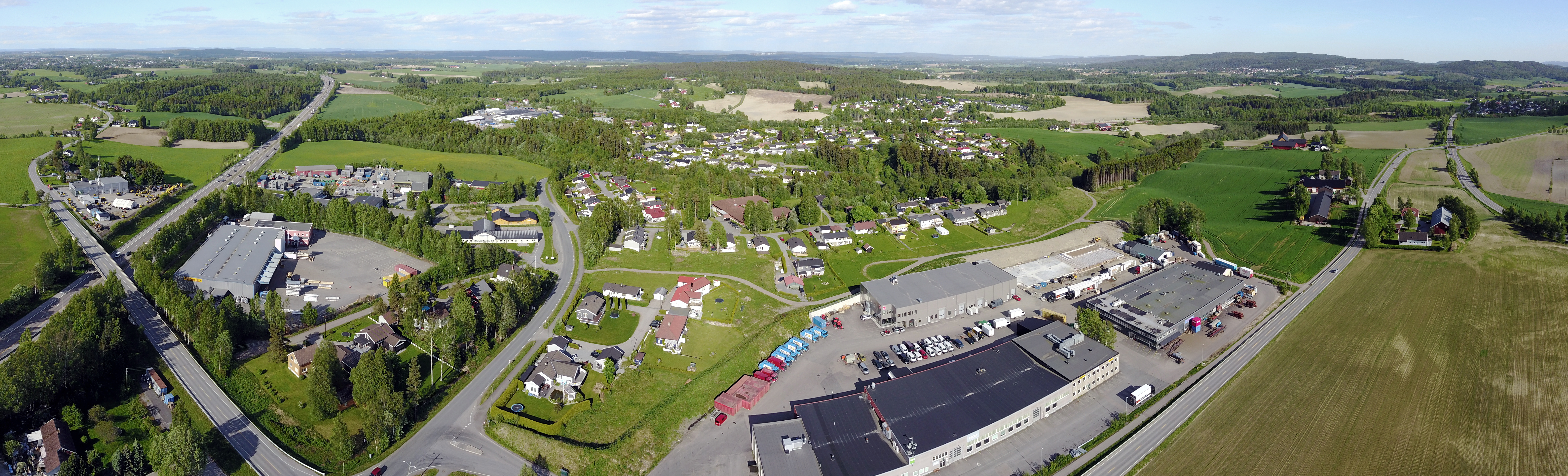 Lindeberg in Sørum. E6 to the left